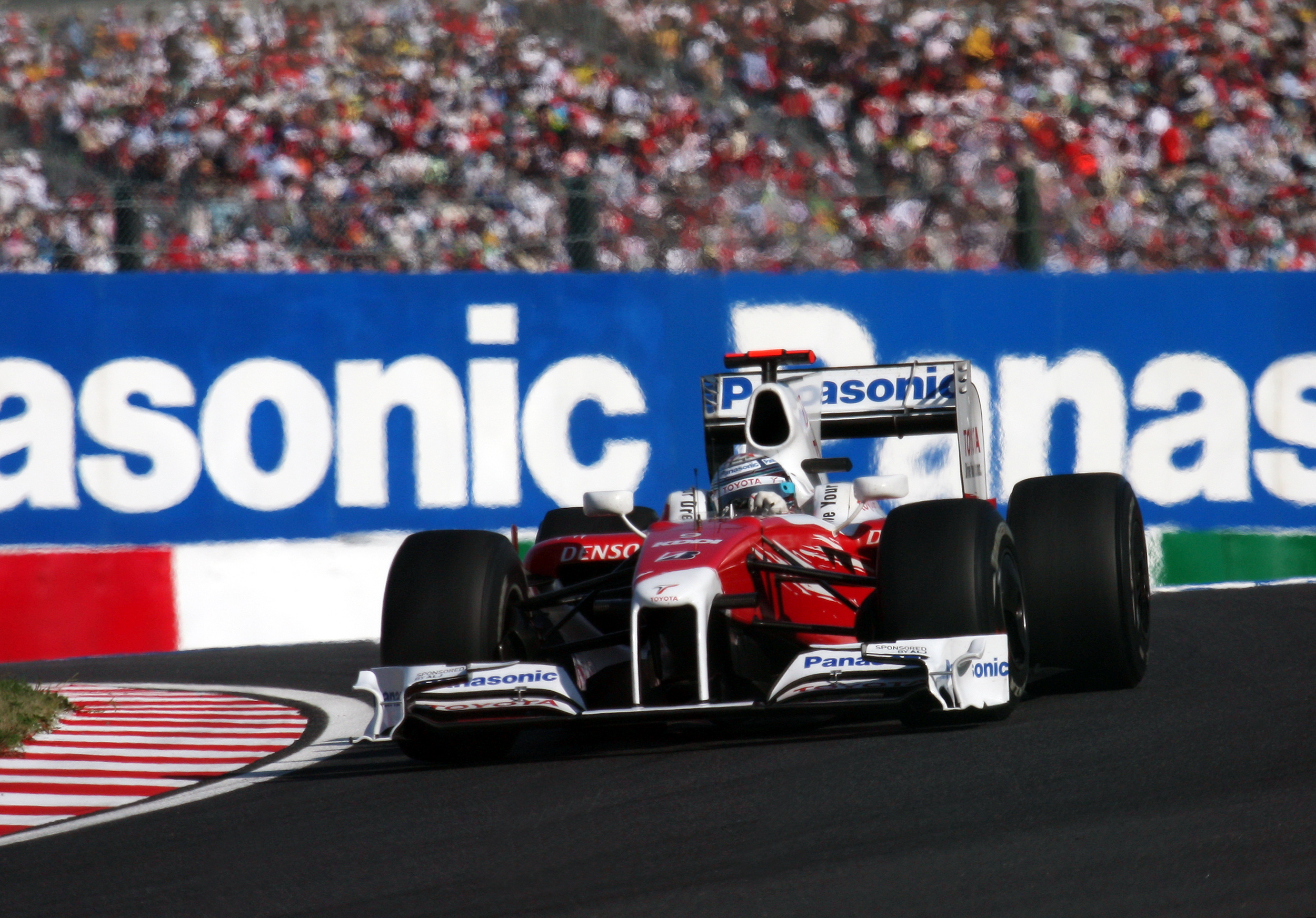 Formula One 2009 Rd.15 Japanese GP: Jarno Trulli (Toyota)